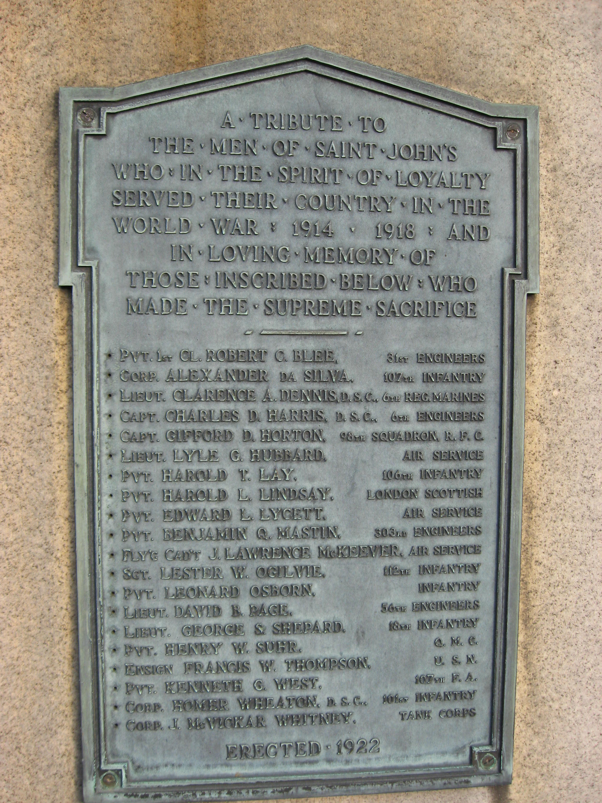 St John's School, Manlius, NY, WWI memorial plaque (1922). Now located at Manlius Pebble Hill School, DeWitt, New York.